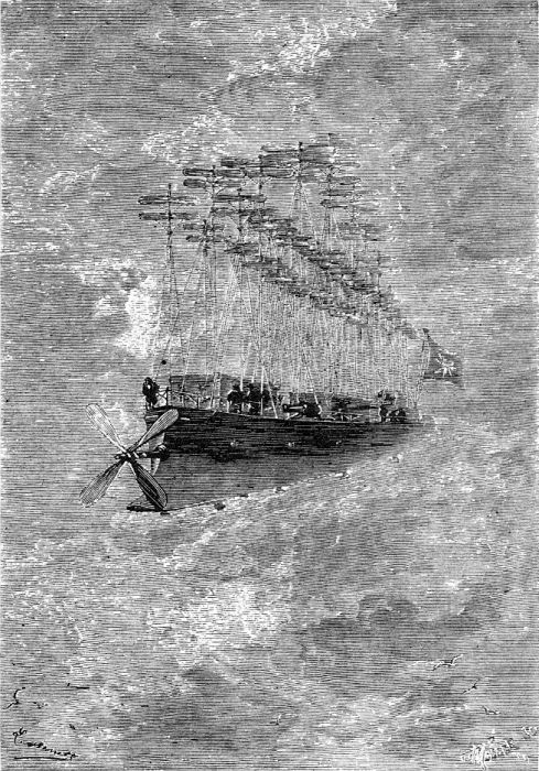 An illustration from Jules Verne's novel "Robur the Conqueror" drawn by Léon Benett.